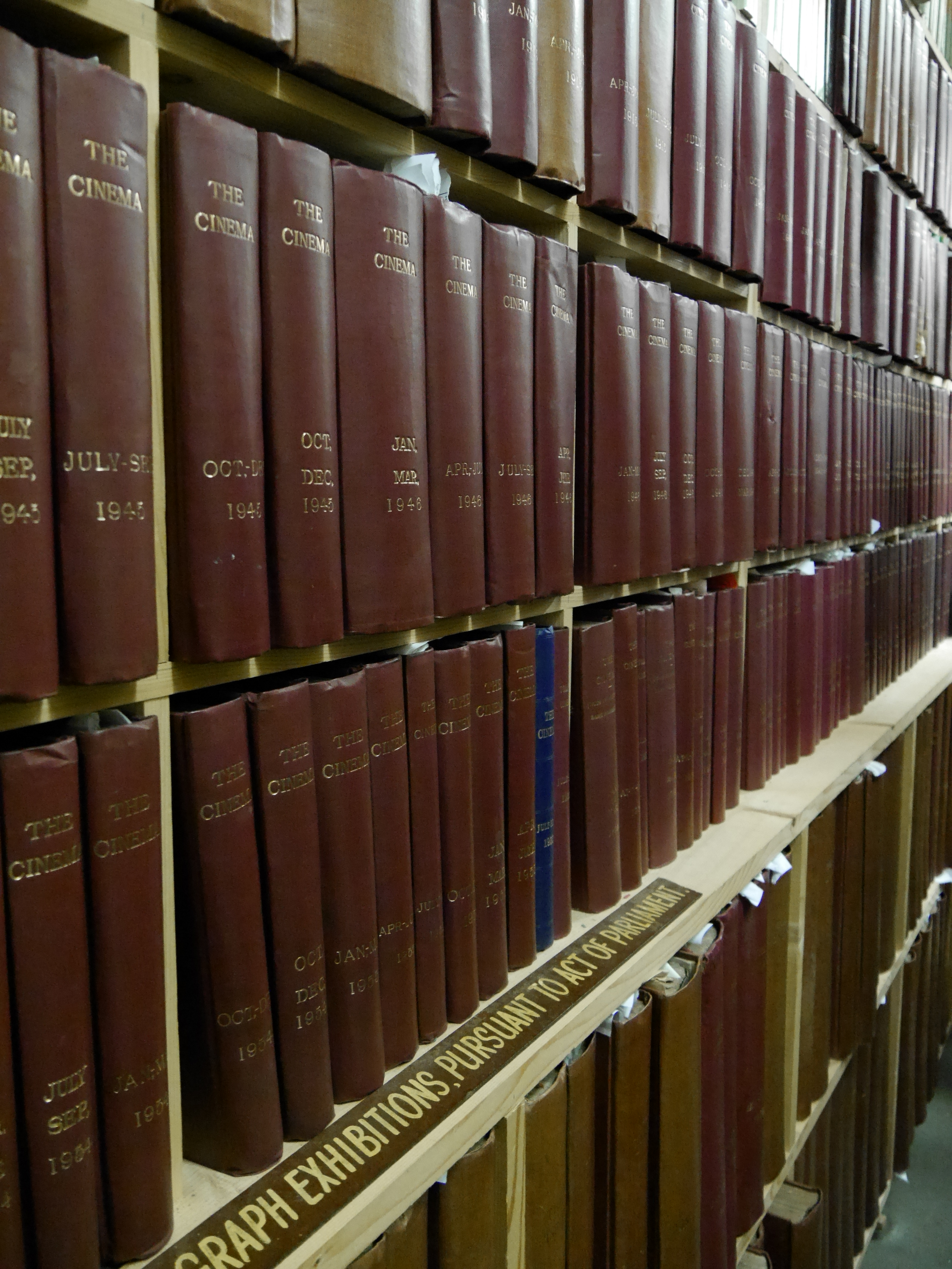 Cinema Museum, London object